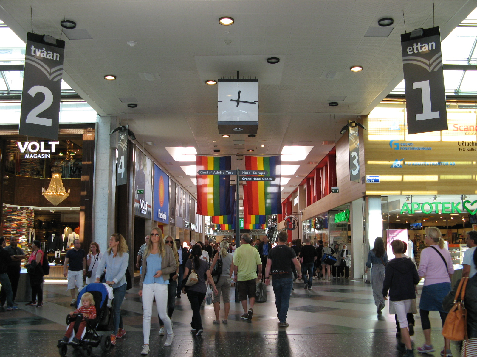 West Pride Gothenburg 2014